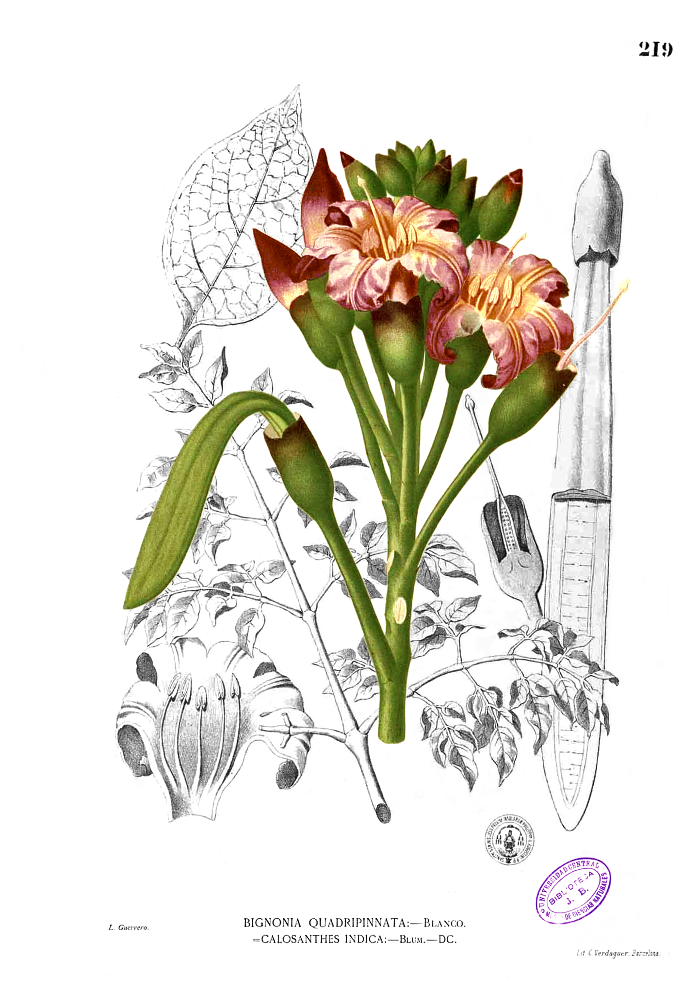 Plate from book